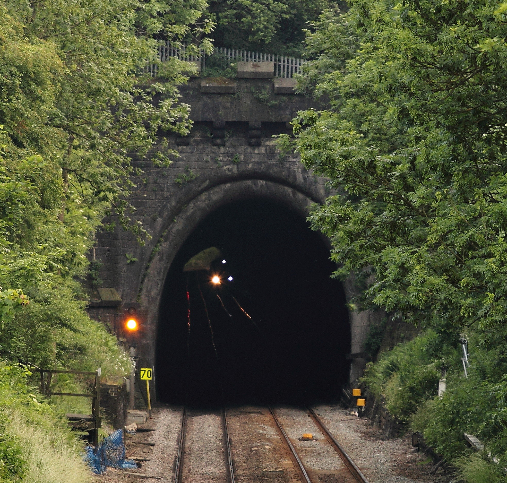 An Arriva Voyager about half way through Claycross Tunnel